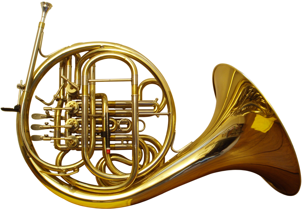 French Horn Besson - Lidl BE702 My own French Horn Réalisé avec the GIMP